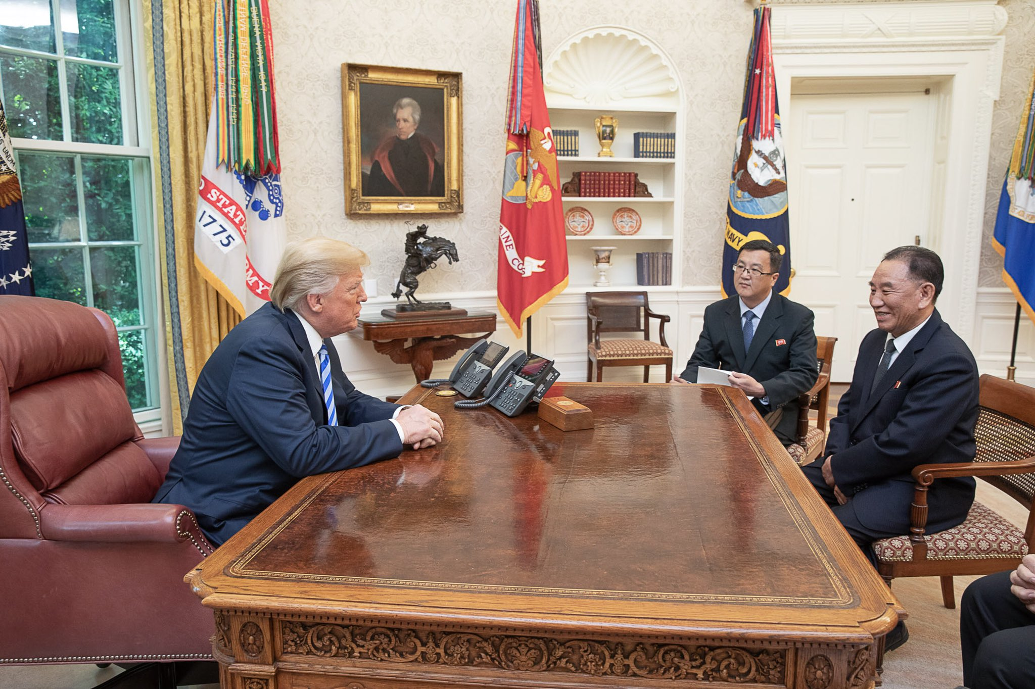 .@POTUS @realDonaldTrump is presented with a letter from North Korean Leader Kim Jong Un, Friday, June 1, 2018, by North Korean envoy Kim Yong Chol in the Oval Office at the @WhiteHouse in Washington, D.C., followed by a meeting. (Official @WhiteHouse Photos by Shealah Craighead)